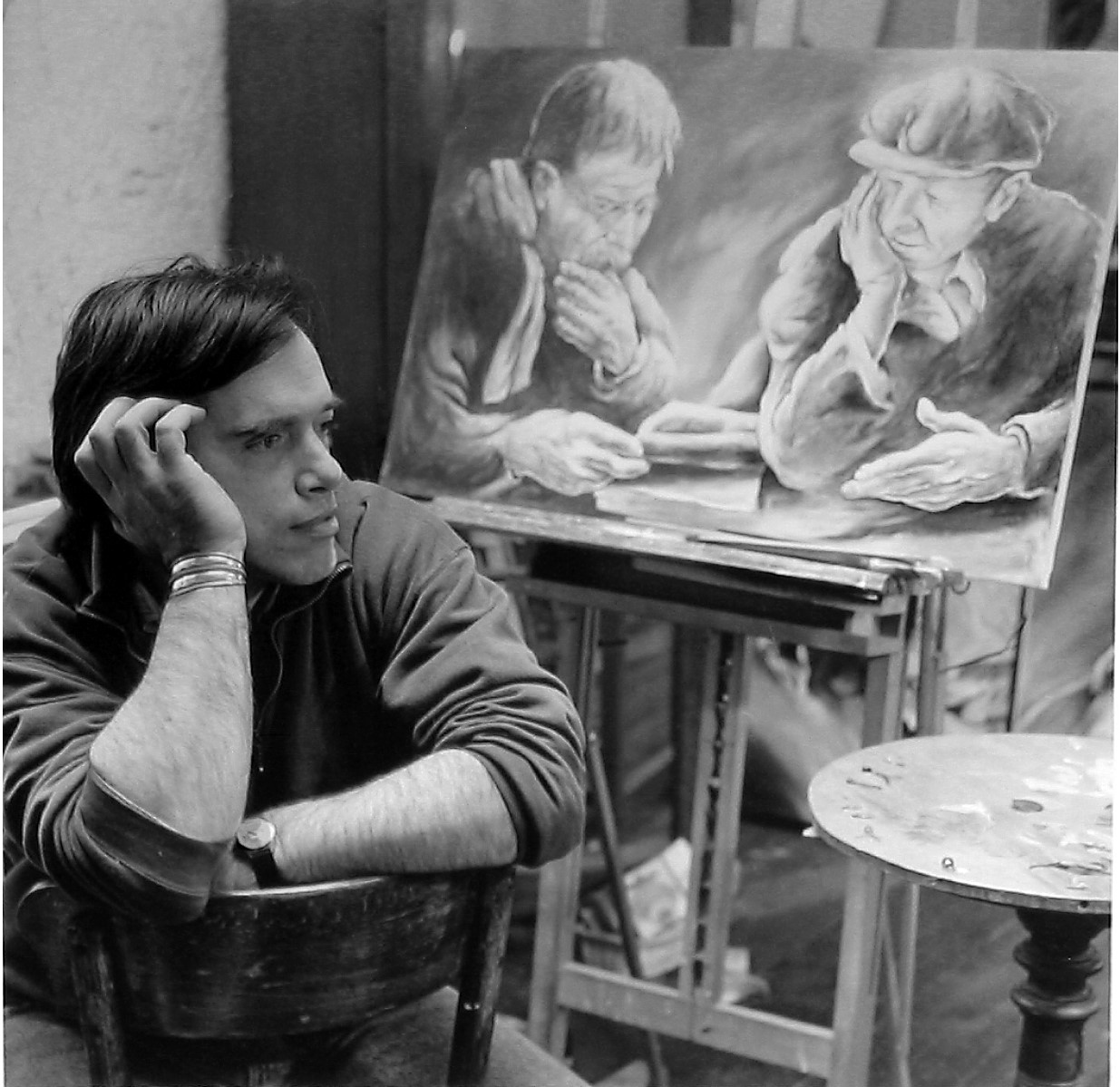 This Photography represents Oded Netivi, an artist from germany